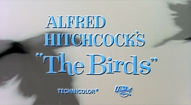 Alfred Hitchcock's The Birds trailer. Title